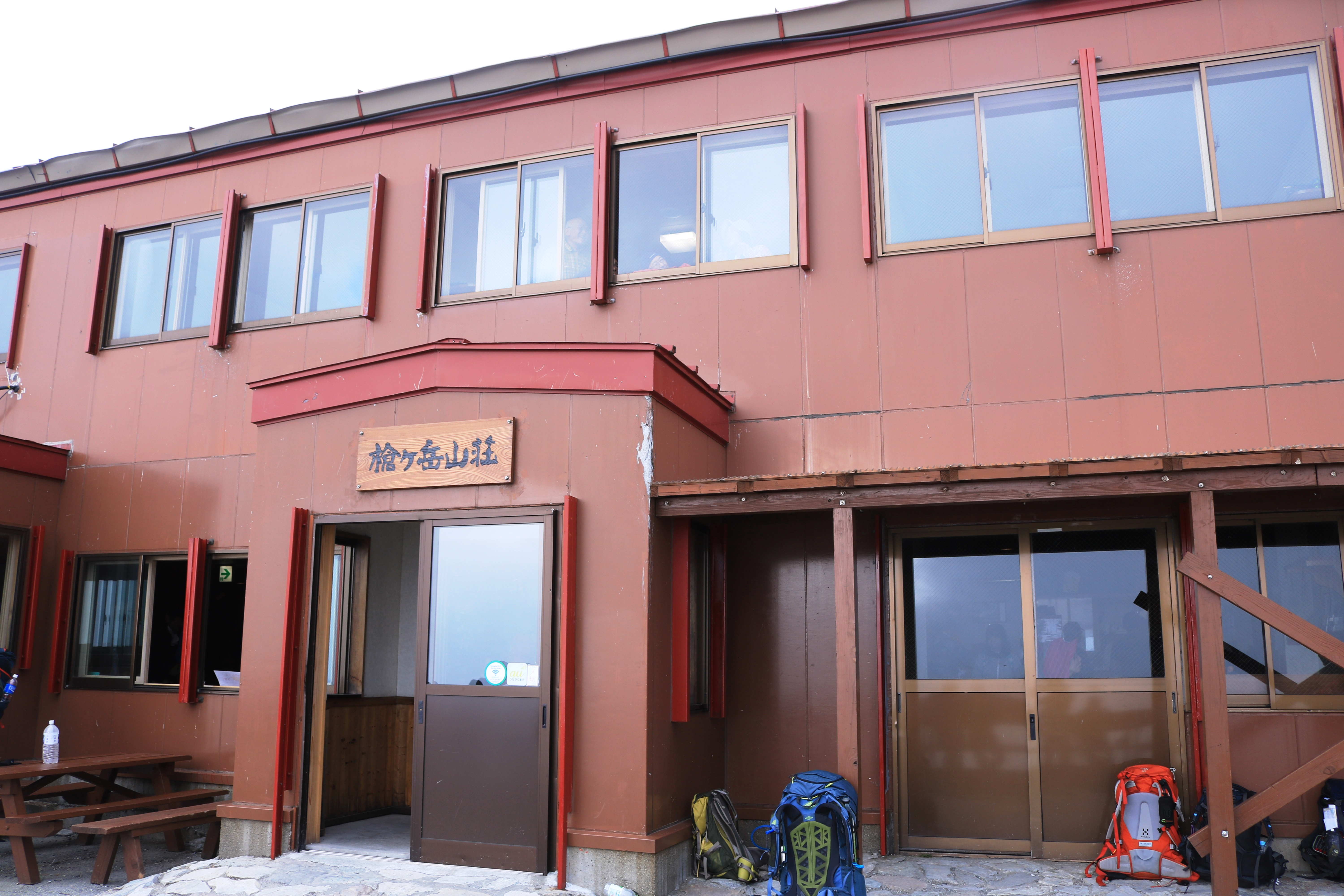 Yarigatake Sanso in Mount Yari, Hida Mountains, Matsumoto, Nagano prefecture, Japan.